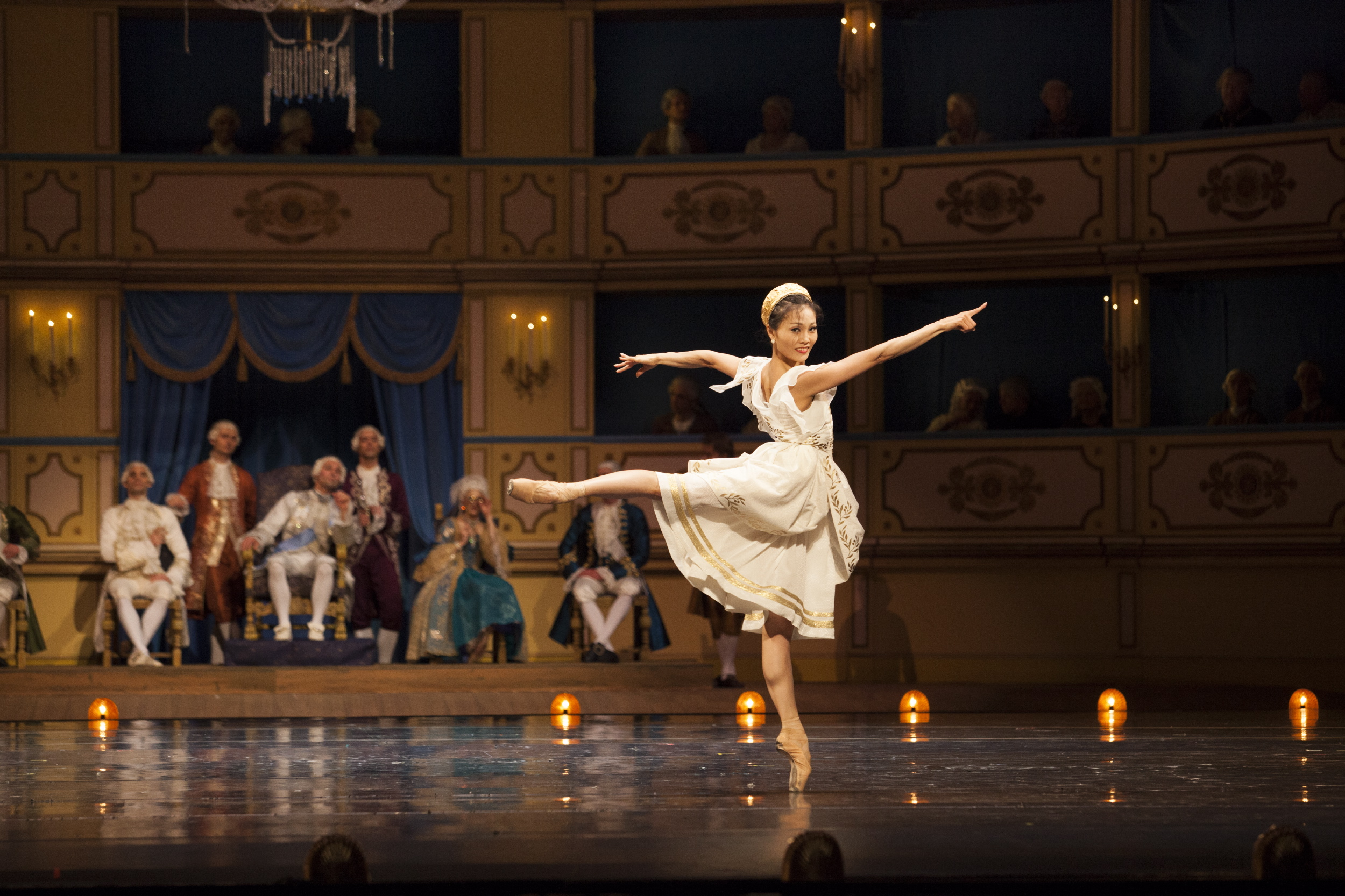 Yuka Ebihara (Mlle Gattai), "Casanova in Warsaw" by Krzysztof Pastor, Polish National Ballet